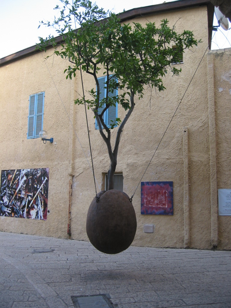 Floating Orange Tree statue (עץ תפוז מרחף) on the streets of Jaffa, by Ran Morin.